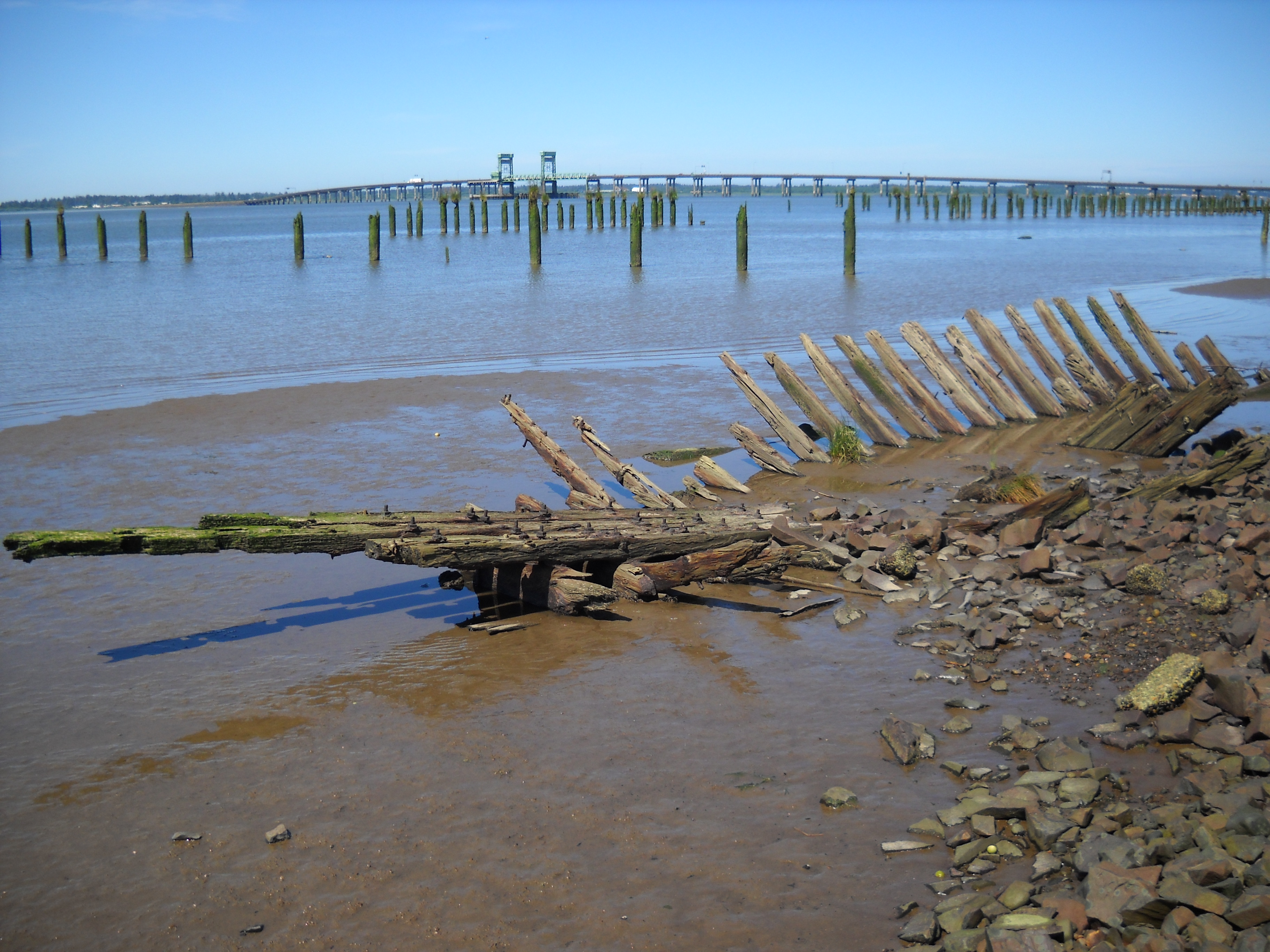 The remains of the sidewheeler T J Potter on the northeast shore of Youngs Bay, Astoria, Oregon, circa 2012